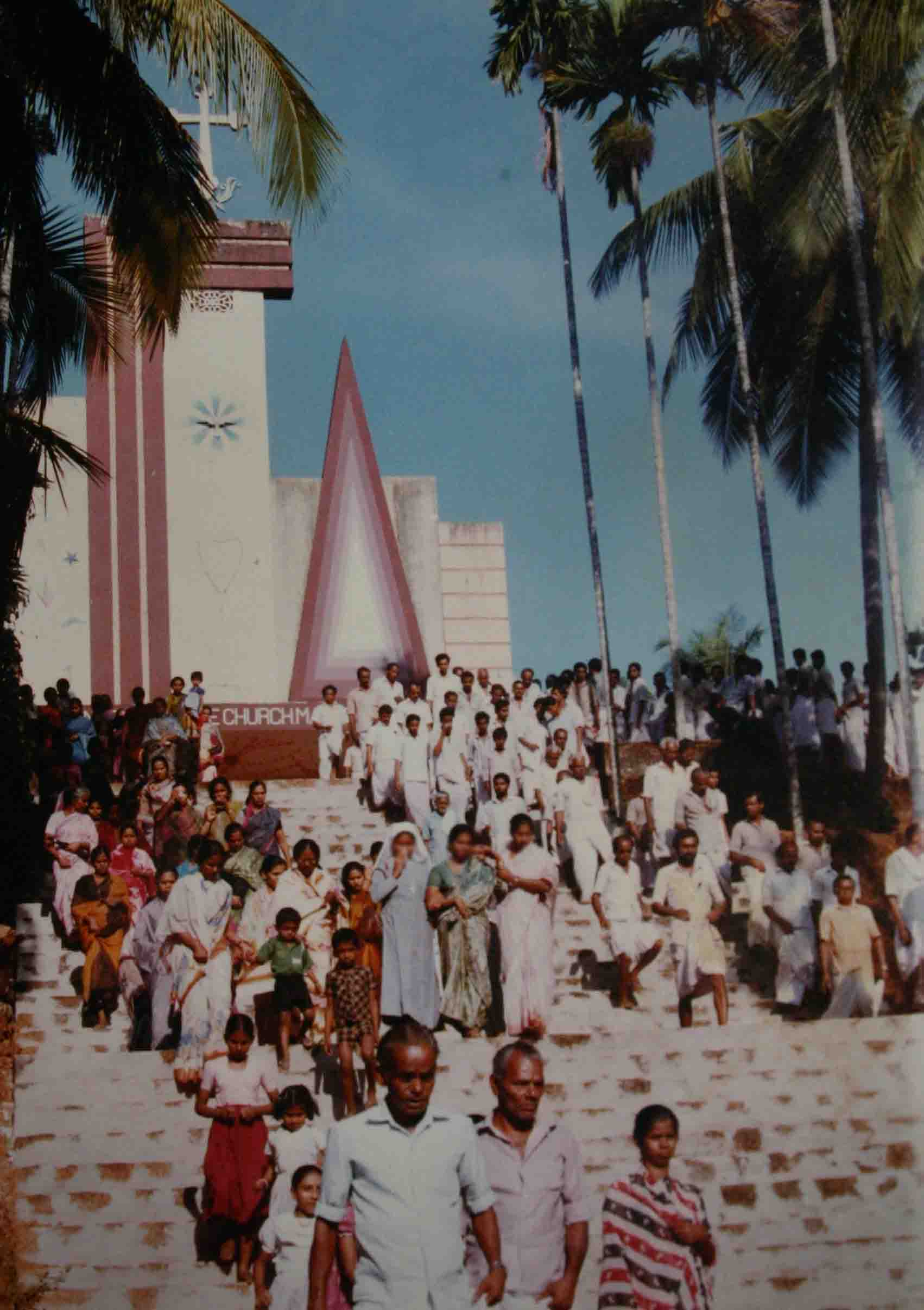 MARUTHONKARA CHURCH